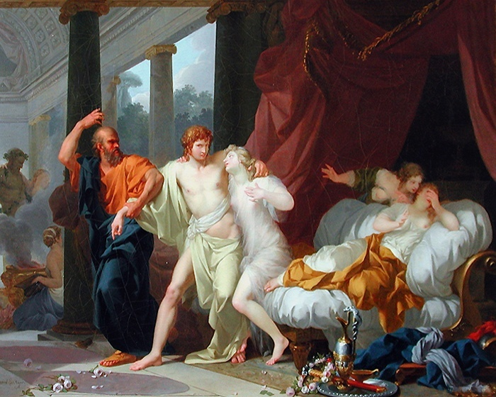 Socrate arrachant Alcibiade du sein de la Volupté (Socrates Tears Alcibiades from the Embrace of Sensual Pleasure). Oil on canvas, 1791.